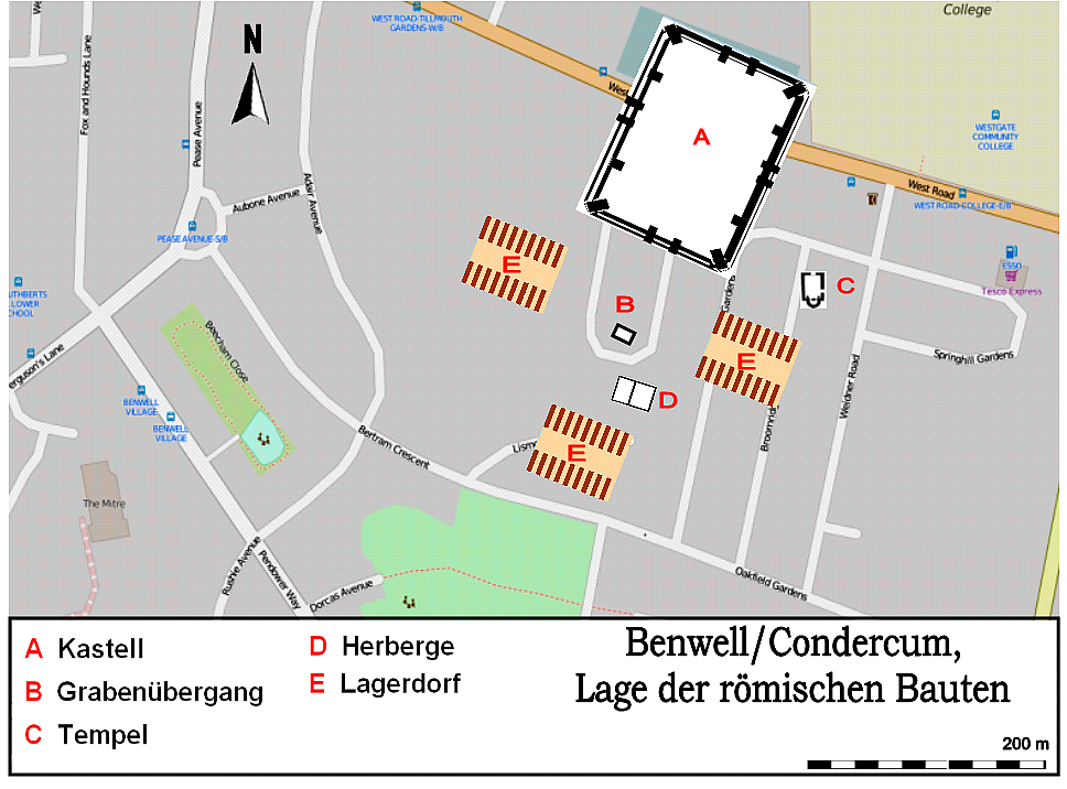 Map Condercum/Benwell (GB), castle, vallum gate, temple, hostel and civilian settlement.